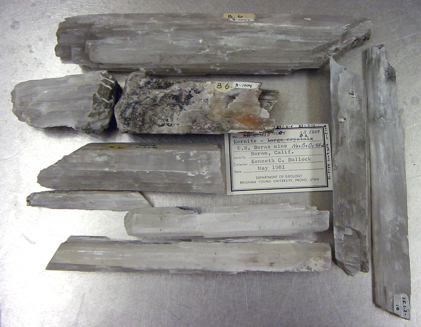 Kernite Locality: U.S. Borax and Chemical Corporation, Boron, California Original description: Kernite. Collected by Kenneth C. Bullock, May, 1981, from the U.S. Borax Mine, Boron, California. Mineral collection of Brigham Young University Department of Geology, Provo, Utah. Photograph by Andrew Silver. BYU index 8-1004, Na2B4O7 x 4H2O.